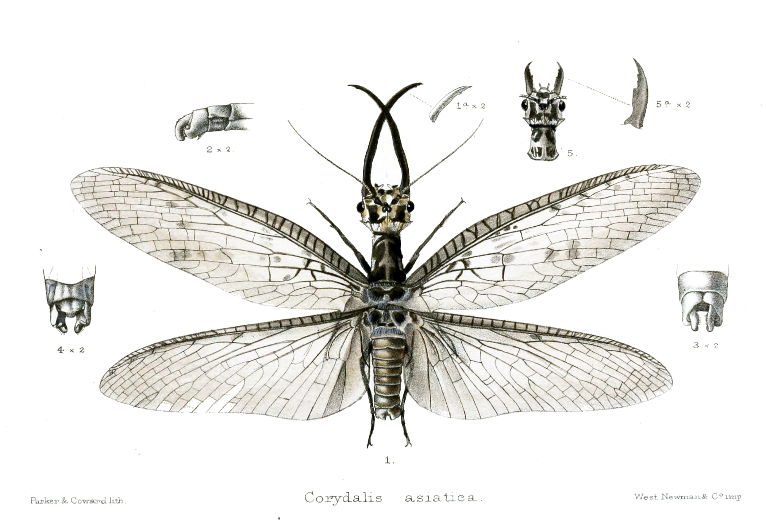 Corydalis asiatica (Corydalidae, Megaloptera)